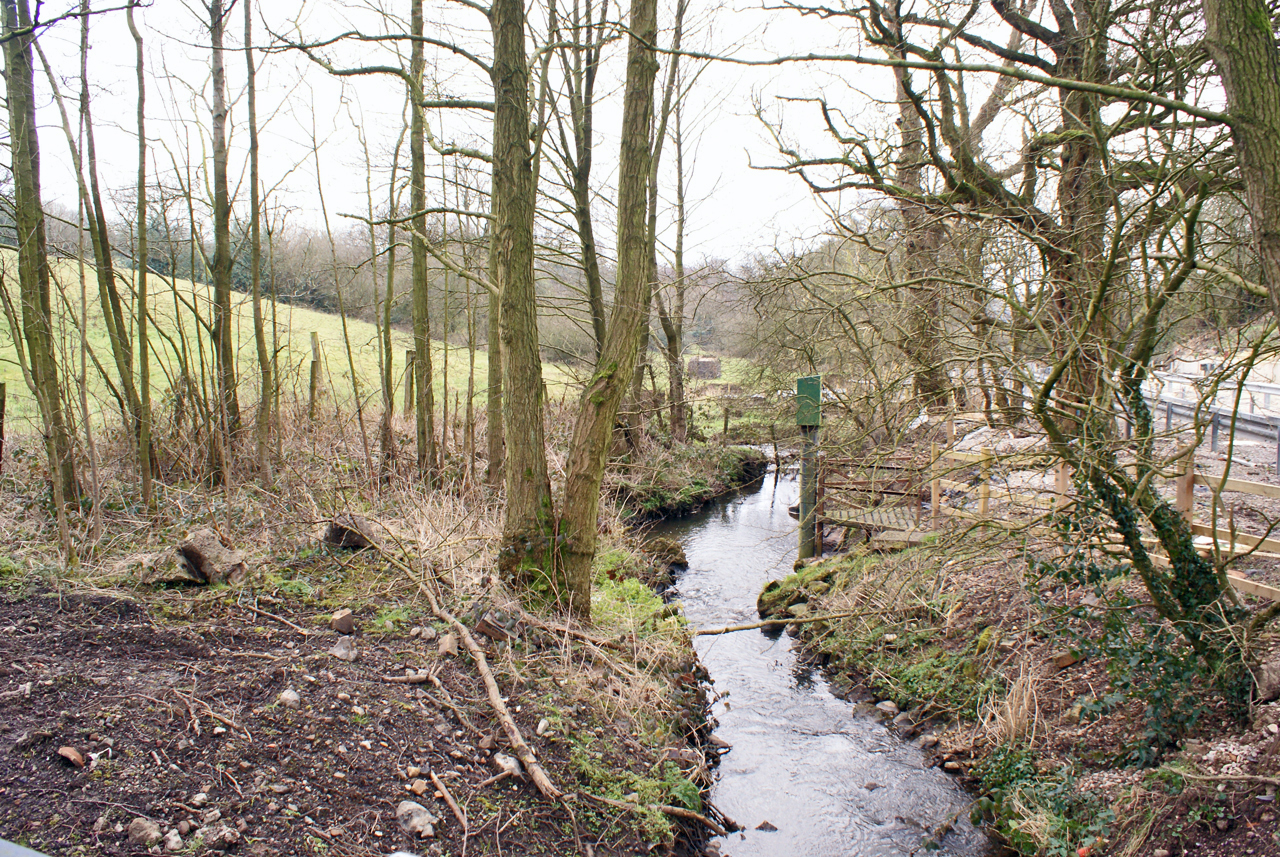 Stream south of Brindley Ford. Ford Green Brook, viewed here from a bridge in Peck Mill Lane